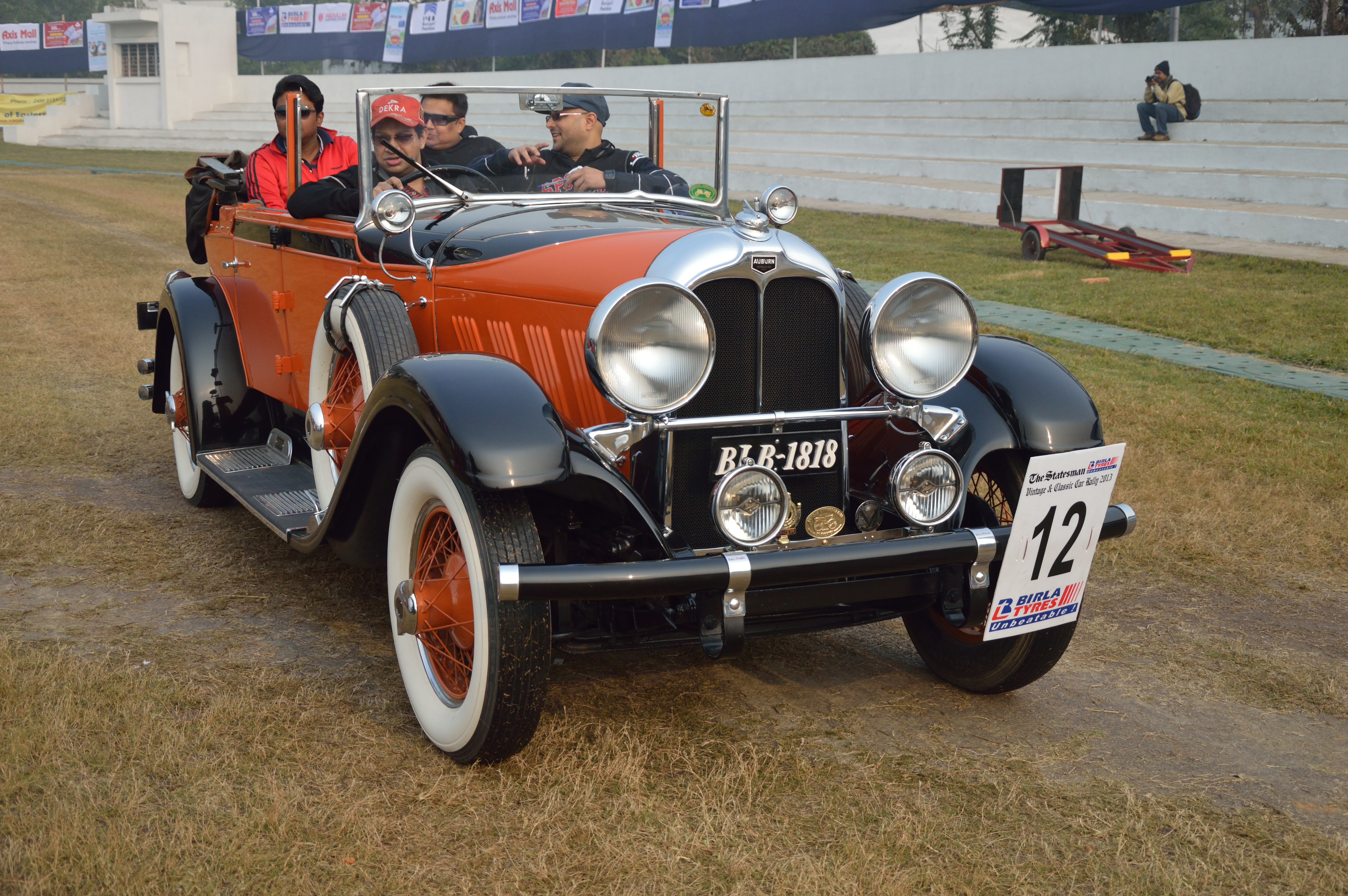 This Auburn car (BLB 1818) was exhibited and ran during ‘The Statesman Vintage & Classic Car Rally 2013’ from the Eastern Command Sports Stadium of Fort William, Kolkata to the same via: Rabindra Sadan, Esplanade, Central avenue, Bhupen Bose avenue, Shaymbazaar five points crossing, APC Roy road, AGC Bose road Park Circus seven points, Gariahat flyover, Gol park, Rabindra Sarover, SP Mukherjee road, Hazra Road, Alipore road and Strand road, the route covers 31.32 km. The rally was held at chilled morning on 13 January 2013 at the ECS Stadium, where 170 entrants were participated with cars and bikes manufactured from 1906 to 1978. This one day festival takes place on the second Sunday of every January in Kolkata since 1968 with full of period costume and cultural period pieces.